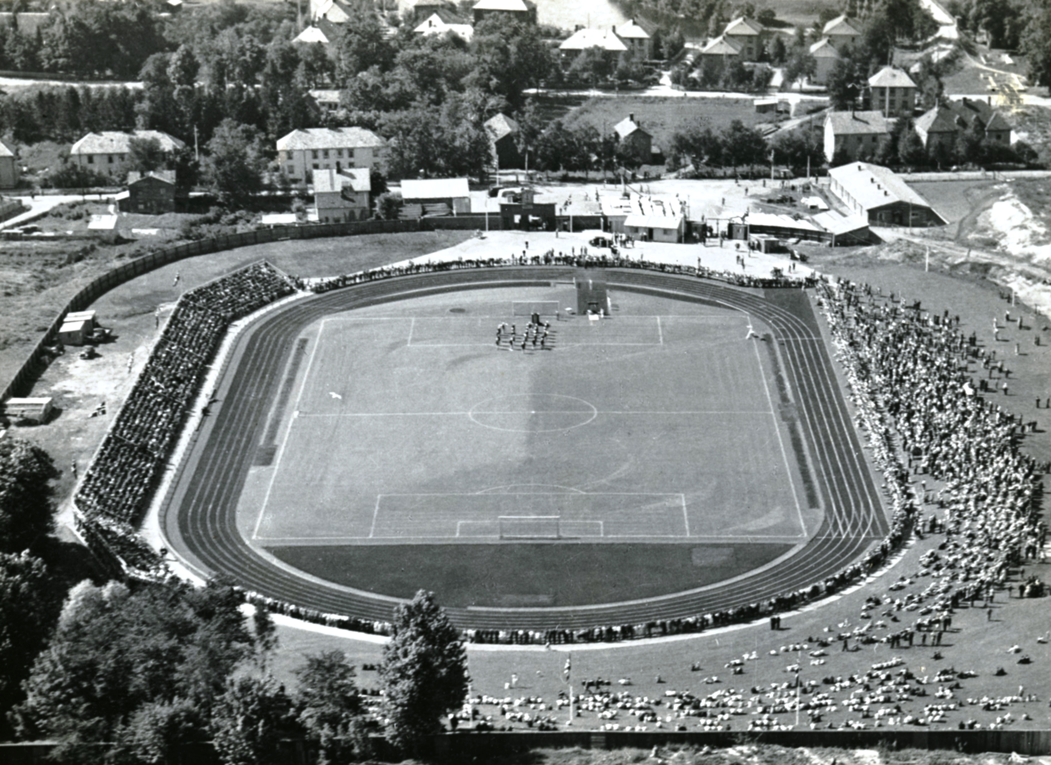 Format: Fotopositiv Dato / Date: 10 August 1947 Fotograf / Photographer: Ukjent Sted / Place: Trondheim Eier / Owner Institution: Trondheim byarkiv, The Municipal Archives of Trondheim Lenke / Link: Lerkendal Stadion på Wikipedia Arkivreferanse / Archive reference: Tor.H43.L6.F5196 Google Streetview: g.co/maps/v9fg8 Merknad: Fra åpningen av Lerkendal stadion, 10 August 1947.